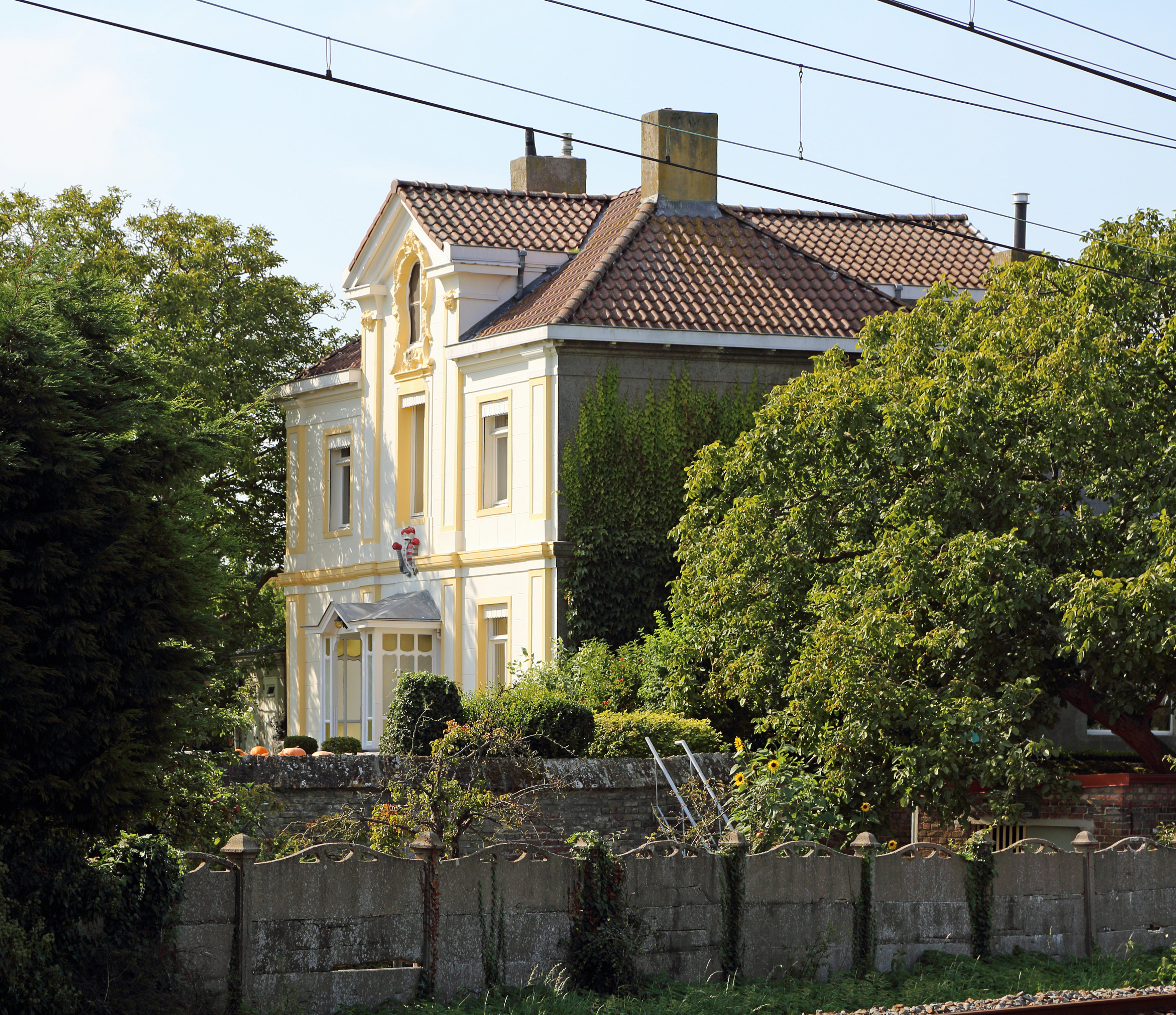 Uitkerke (municipality of Blankenberge, Belgium), Kerkstraat 420: 'Uitkerke Castle'